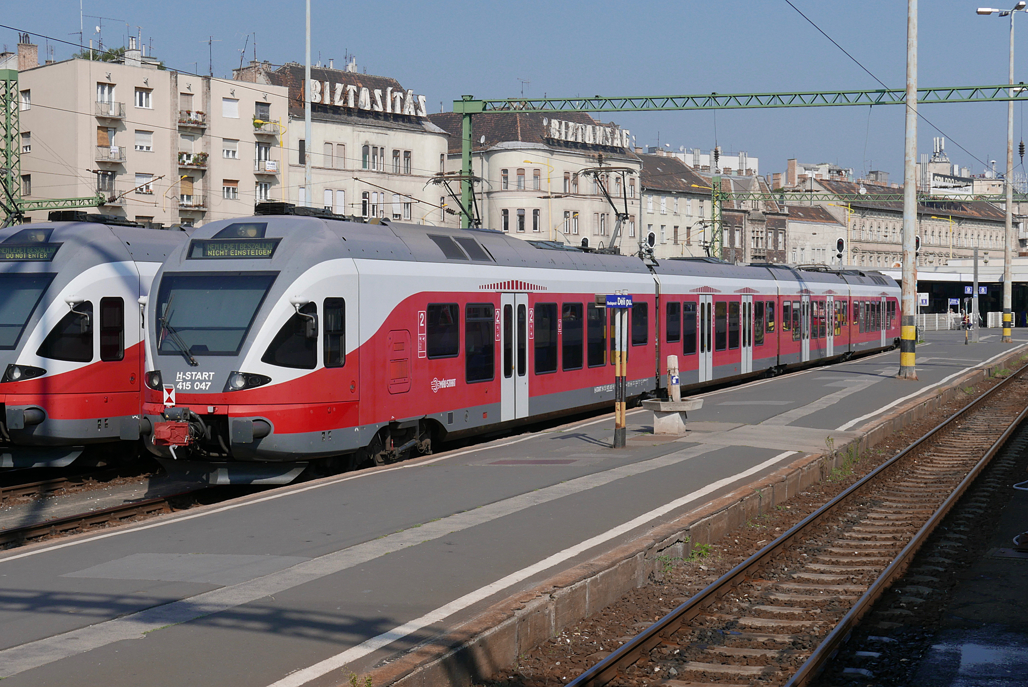 MÁV 415 047 at Budapest-Déli pu.